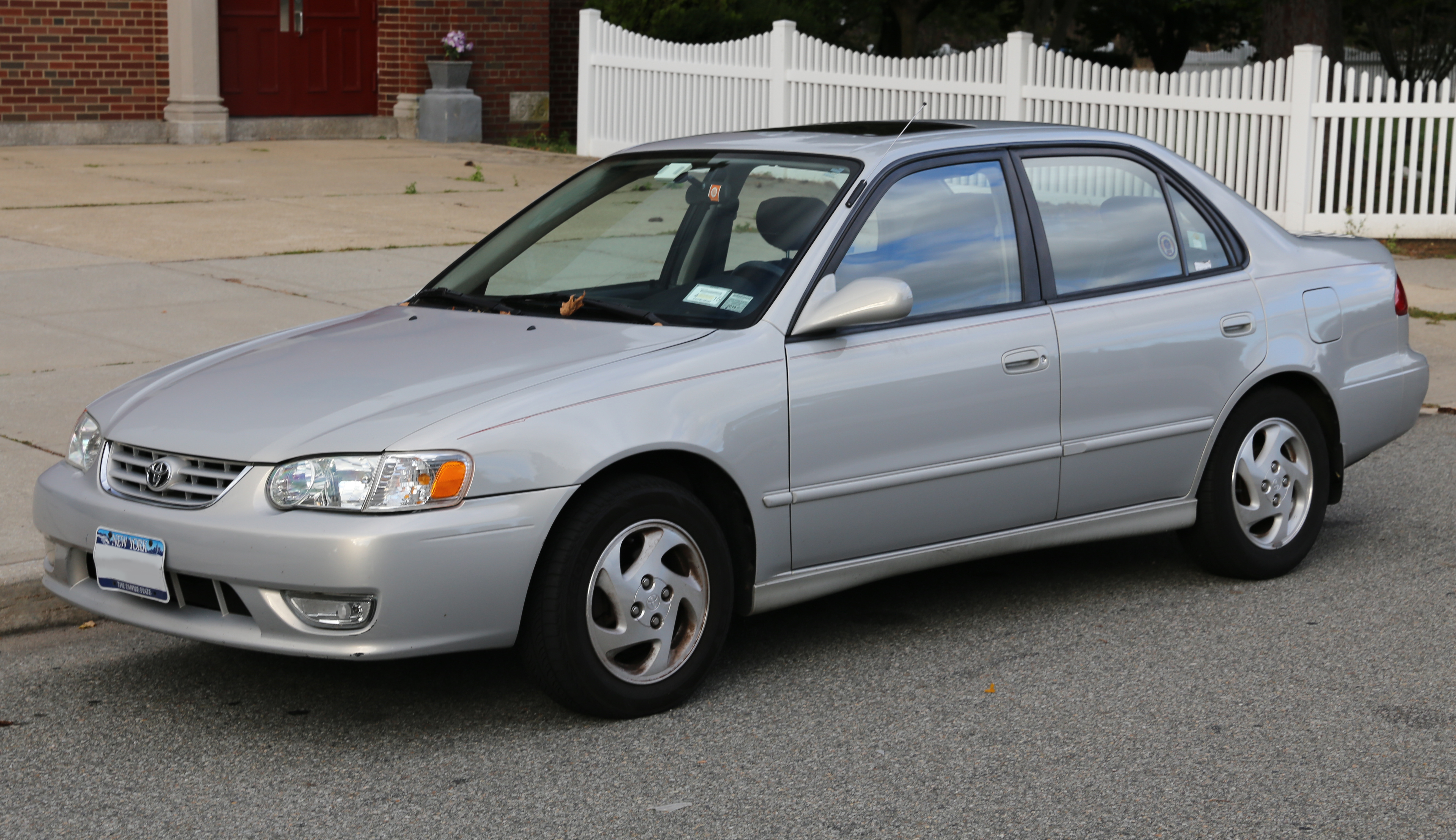 2001 Toyota Corolla S. Built in Cambridge, Ontario, this mildly sporting model has the 1.8 litre VVT 1ZZ-FE engine with 125hp.